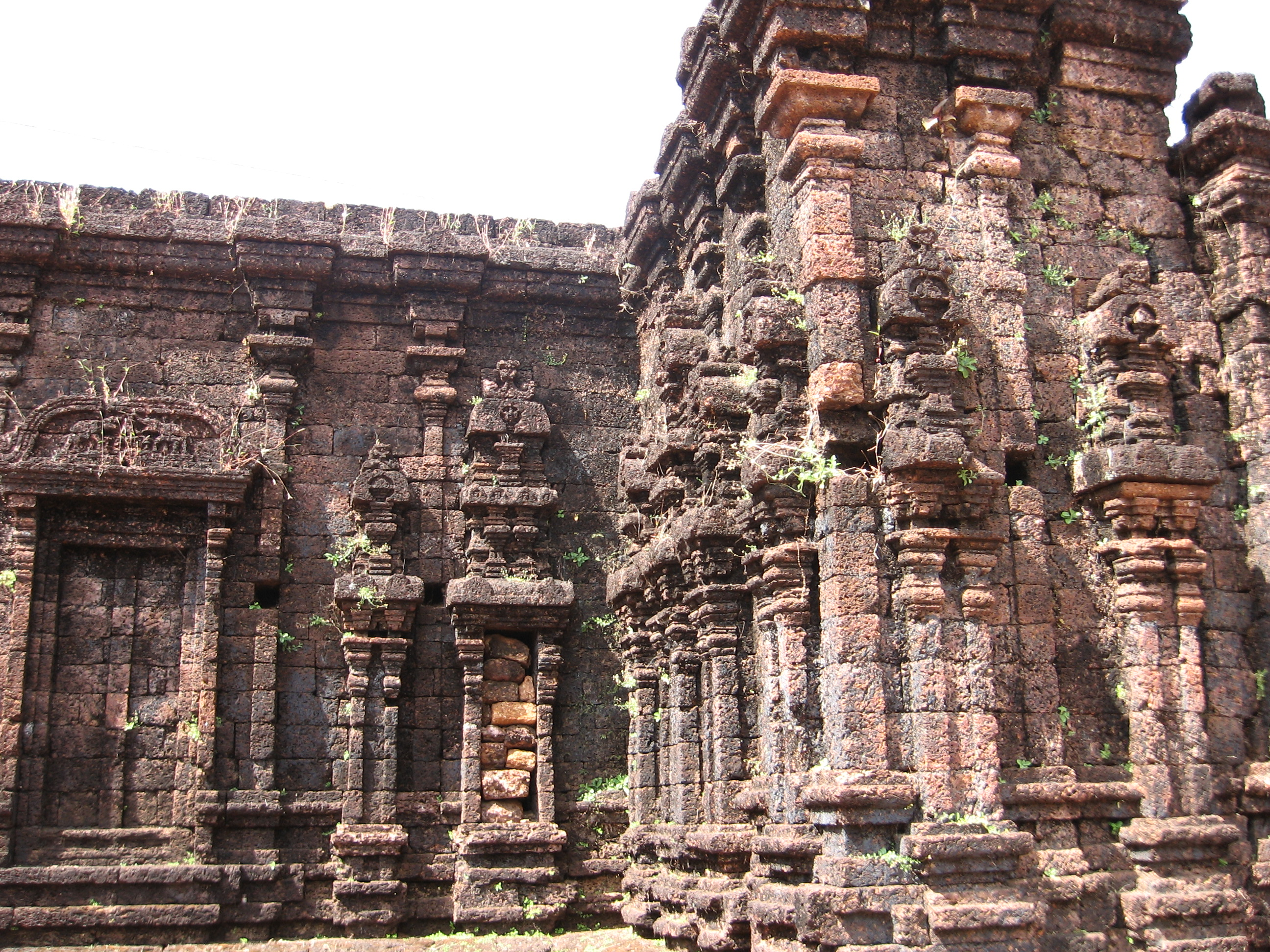 Outer wall of Taliparamba Rajarajeshwara Temple.